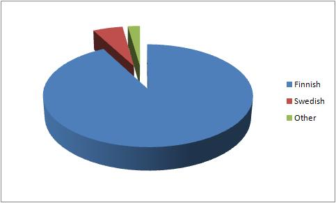 Proportions of main languages in Finland 2007, according to "Väestö – Suomessa puhutut kielet (31.12.2007)" (in Finnish). suomi.fi. Helsinki:: State Treasury. 2007-12-31.